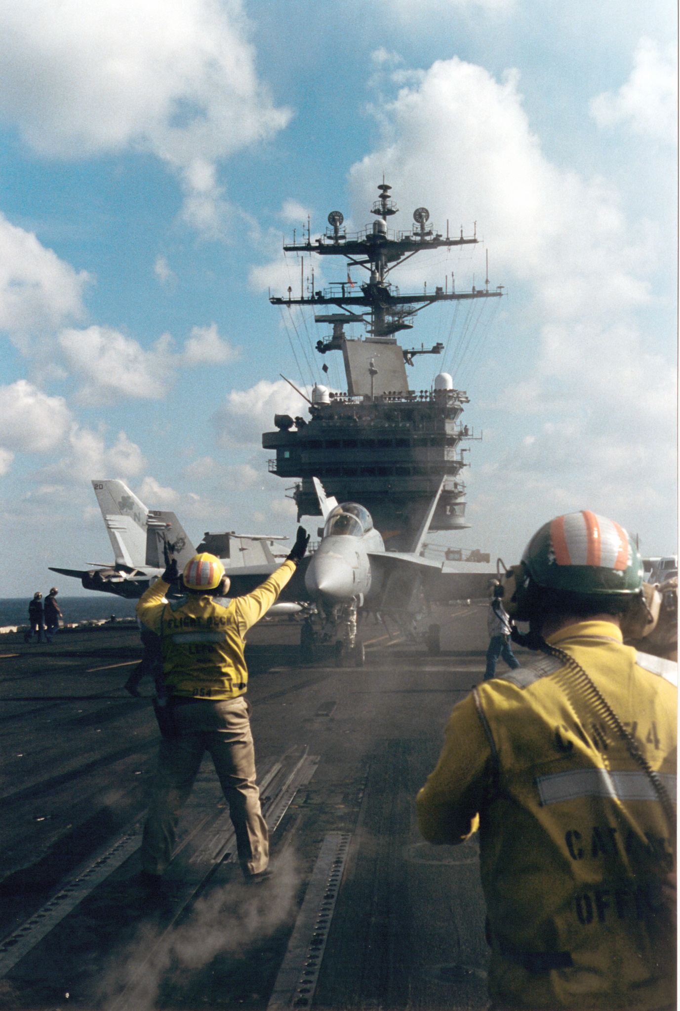 970123-N-5385H-001 (January 23, 1997.....) The U.S. Navy's newest Strike Fighter, the F/A-18F Super Hornet, taxis towards a catapult aboard the Navy's newest nuclear powered aircraft carrier USS John C. Stennis (CVN 74), at the successful completion of sea trials. U.S. Navy Photo By Photographer's Mate Chief Thomas M. Hensley. (RELEASED)